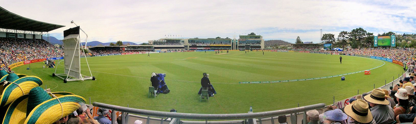 Created by myself (User:Chuq) with photos taken by myself at the Aus v NZ Cricket One-day International at Bellerive Oval on January 14 2007. Aaroncrick brightened image.